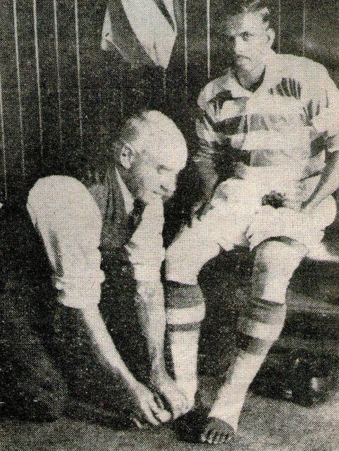 Mohammed Salim, the first Indian footballer to play for a foreign club. In this photograph from 1936, due to playing in bare feet, he is having them bandaged by Jimmy McMenemy the Celtic FC trainer.